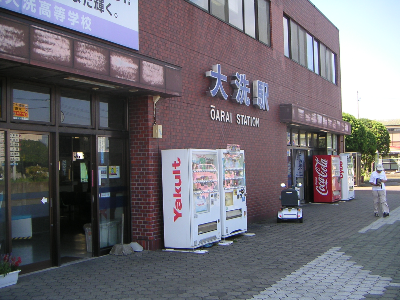 Ōarai Station in Ōarai, Ibaraki